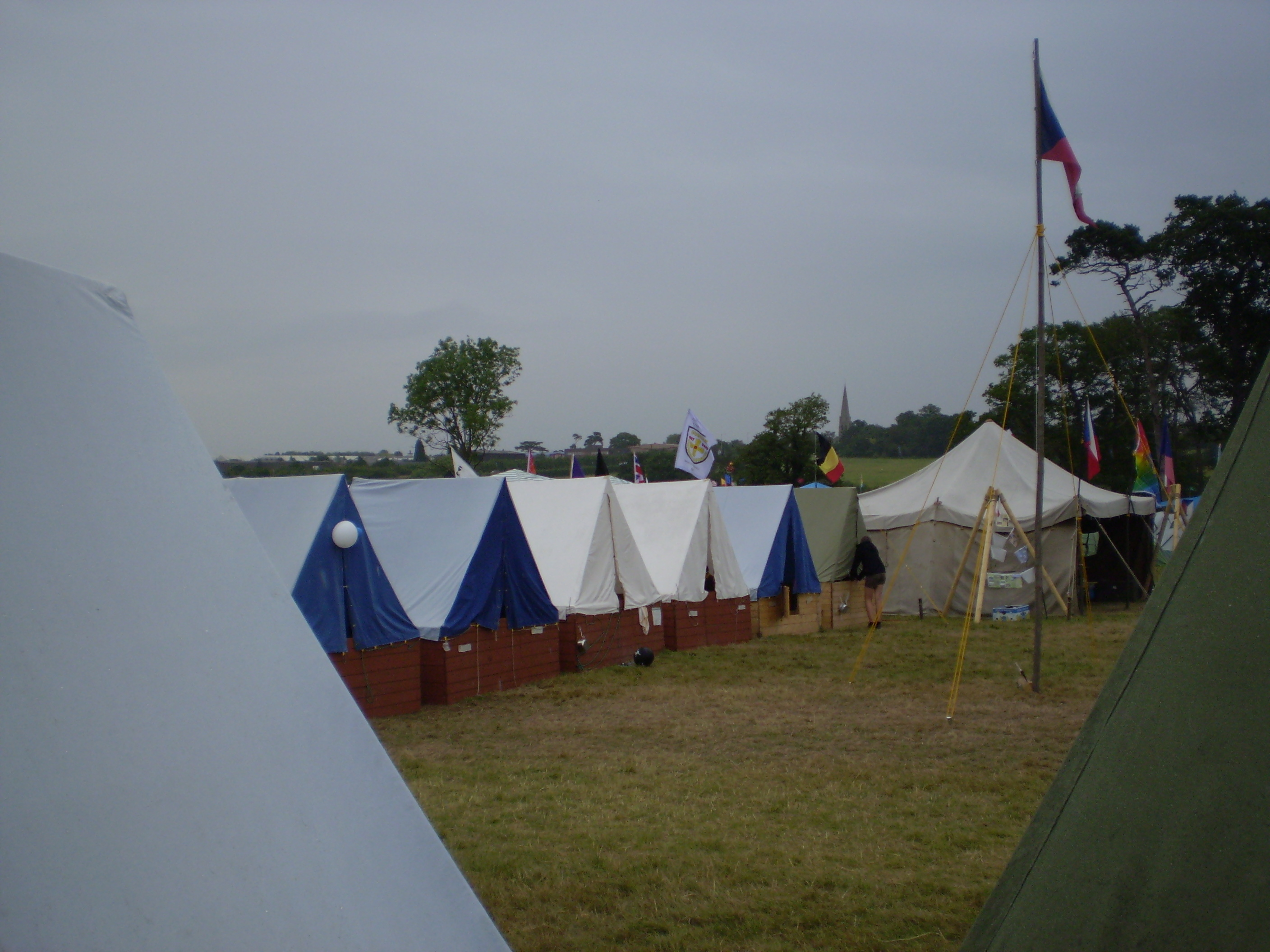 Czech tents (with wooden bases) at the 21st World Scout Jamboree